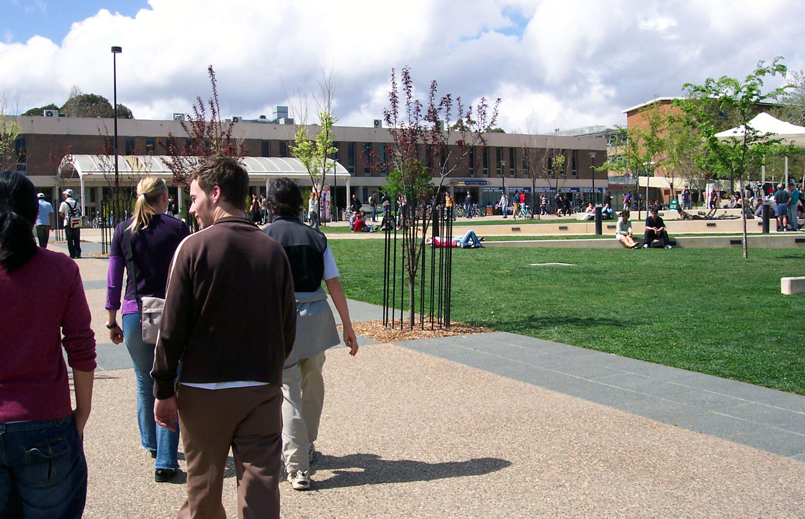 Australian National University at lunch time. I took this on a uni trip. Taken by Enoch Lau on 30 September 2004. As a courtesy, please let me know if you alter this image or this image description page. Original filename was 100_3464.JPG.